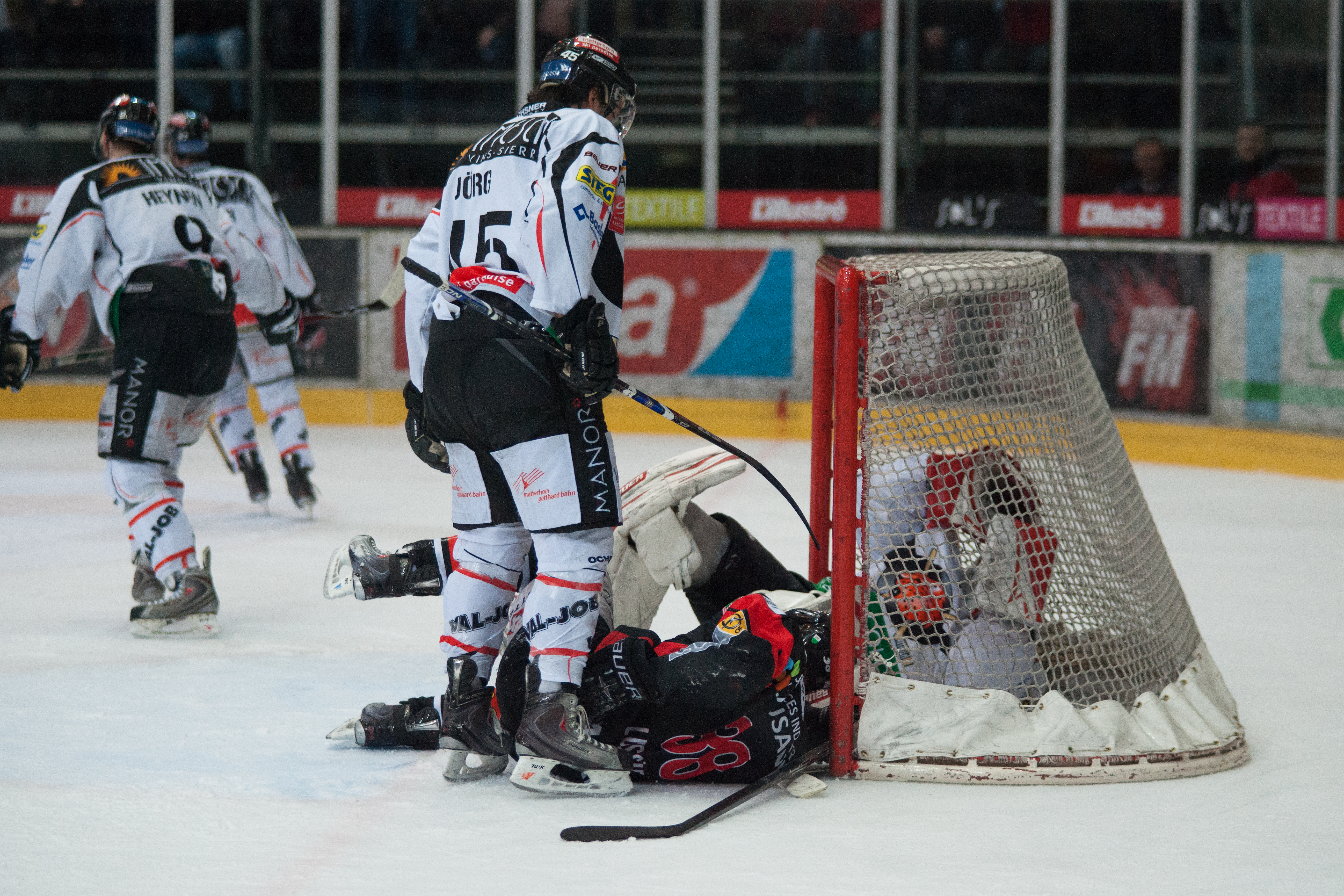 The making of this document was supported by Wikimedia CH. (Submit your project!) For all the files concerned, please see the category Supported by Wikimedia CH.